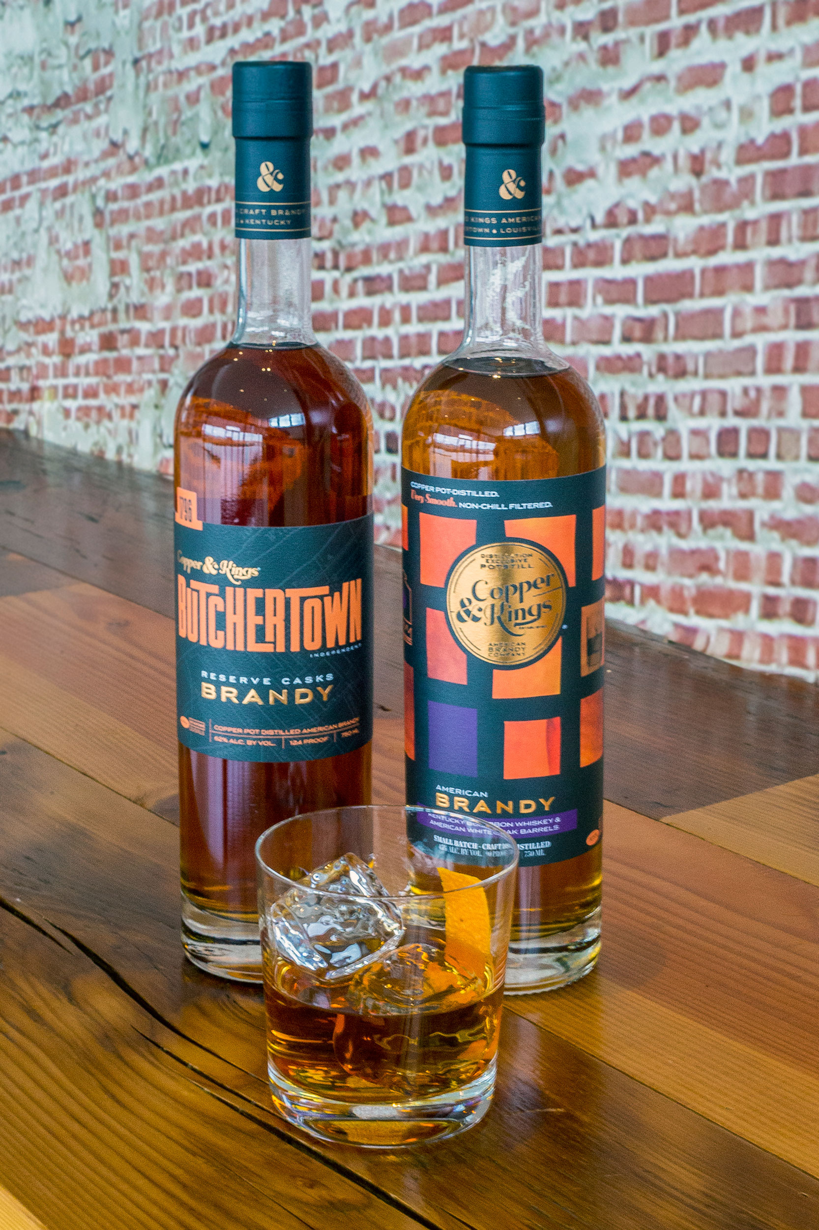 Copper & Kings Butchertown Brandy (left) and American Craft Brandy (right)